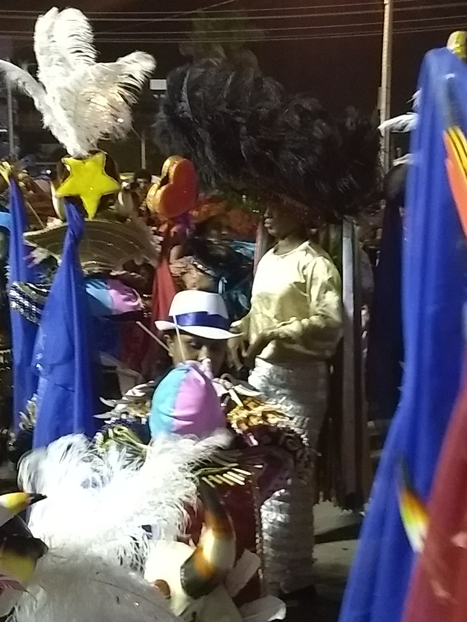 Os Foliões.